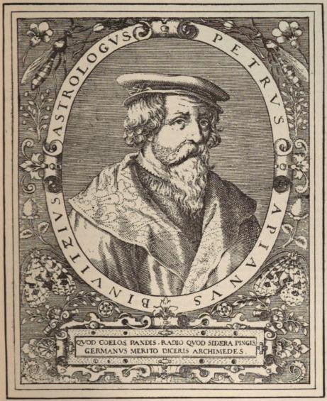 Portrait of astronomer Petrus Apianus (Peter Bennewitz)